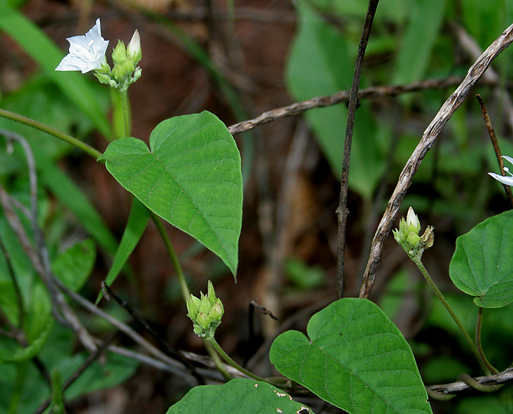 Jacquemontia paniculata (Burm.f.) Hallier f. at Ananthagiri Hills, in Rangareddy district of Andhra Pradesh, India.